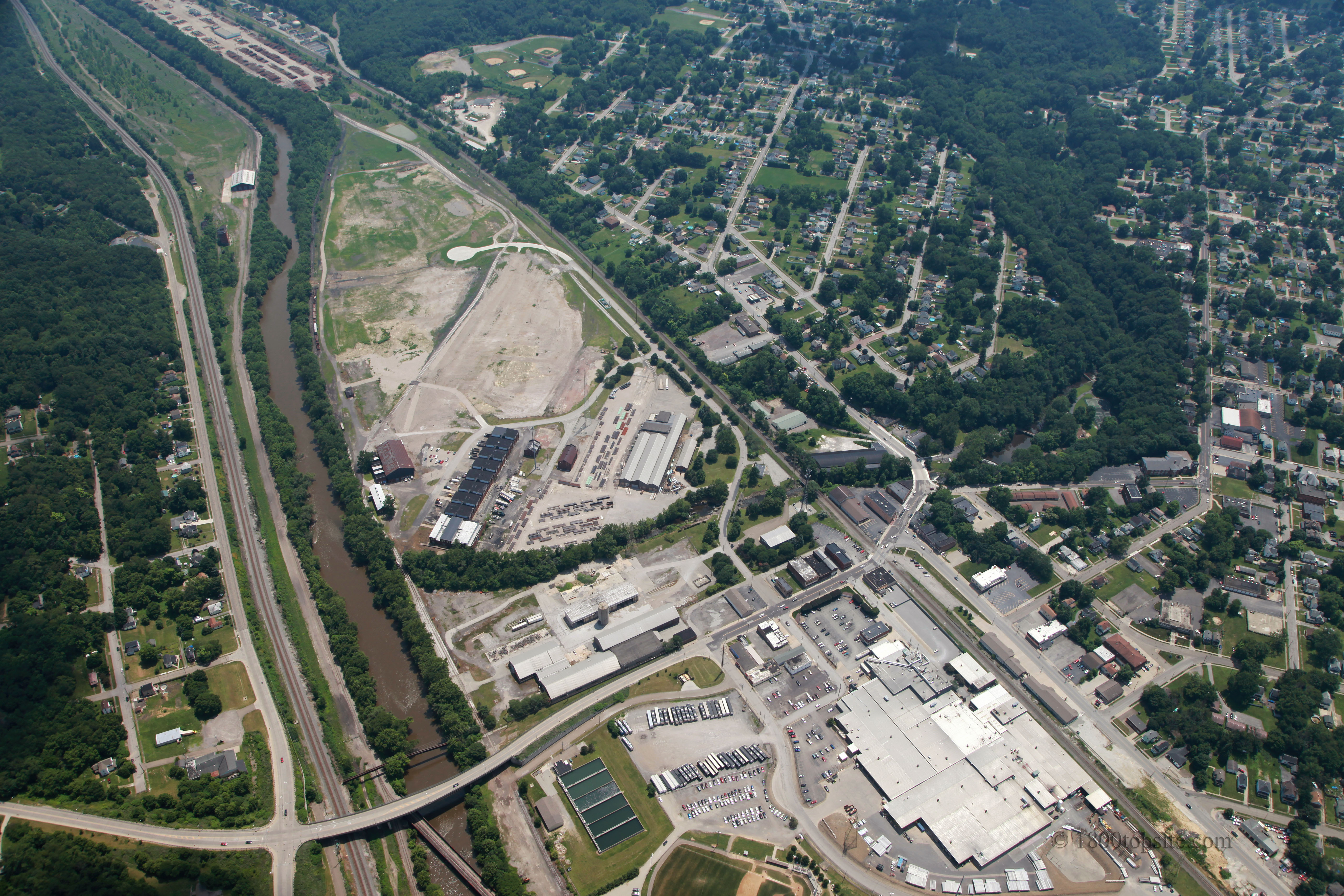 Aerial view of northeastern Struthers, Ohio, United States. At bottom left is the Bridge Street bridge over the Mahoning River, while Wilson Avenue is visible at far left, and State Street/Lowellville Road runs from bottom right to top left. The focus of the image is the industrial complexes that cover most of the land at the center and bottom-center of the image.